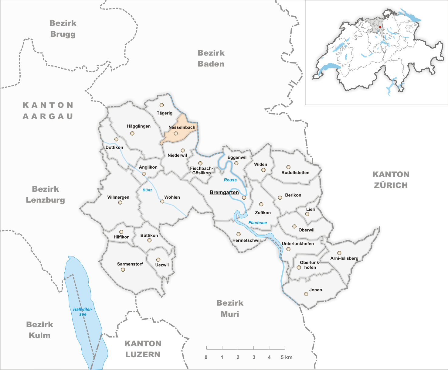 Municipality Nesselnbach